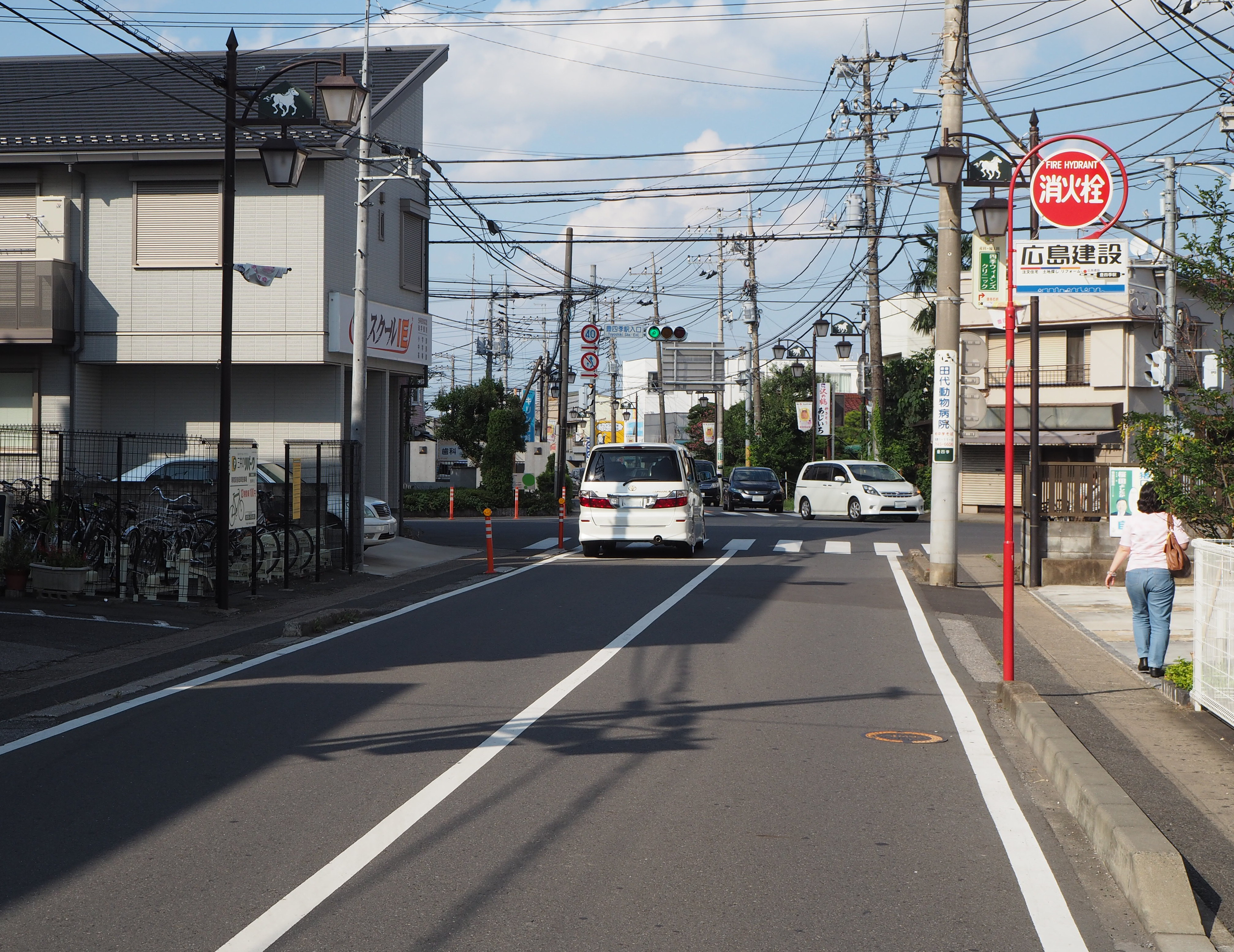 Chiba Prefectural road 279